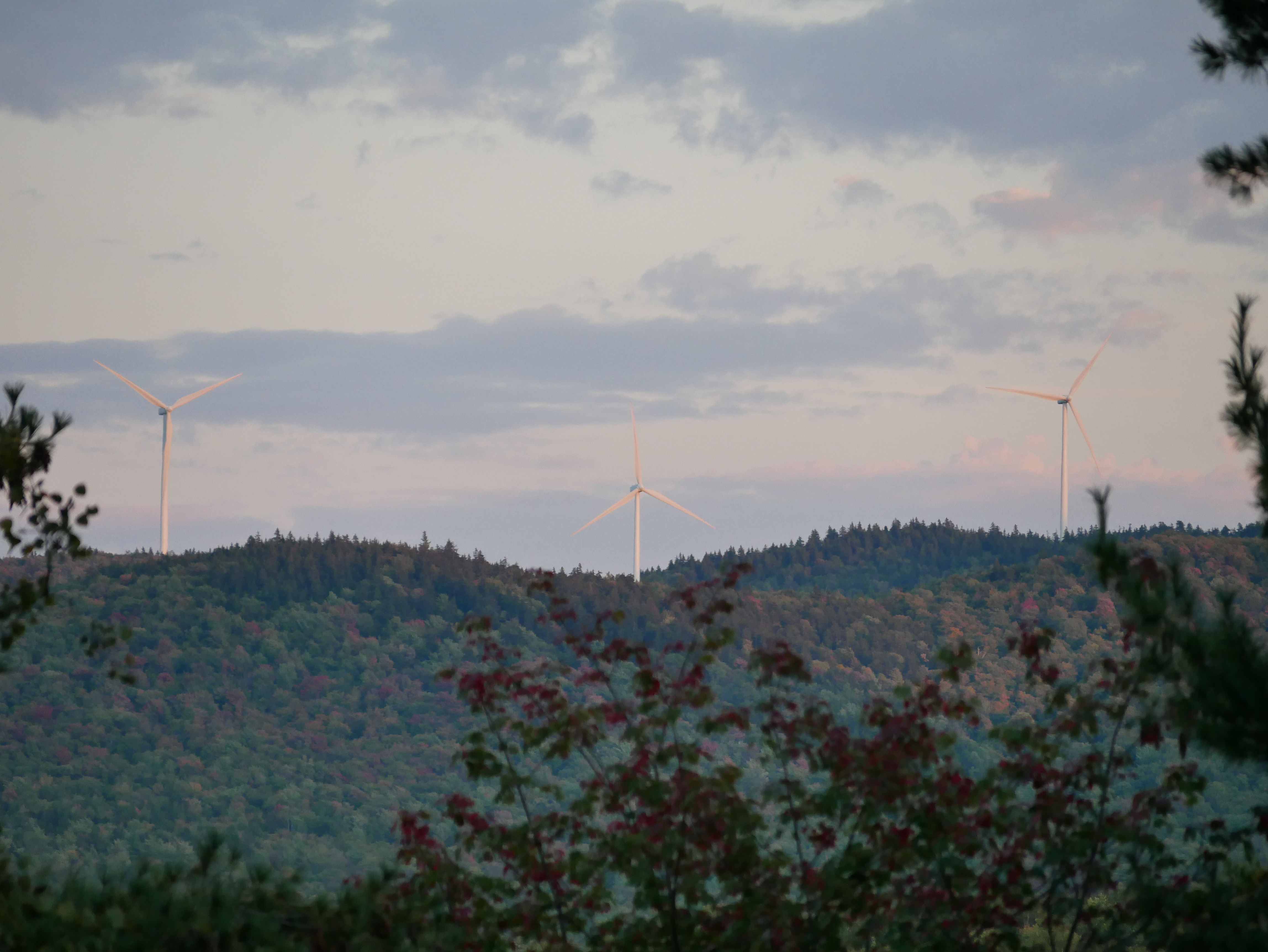 Spruce Mountain Wind Farm as seen from 3.5 miles to the northwest.